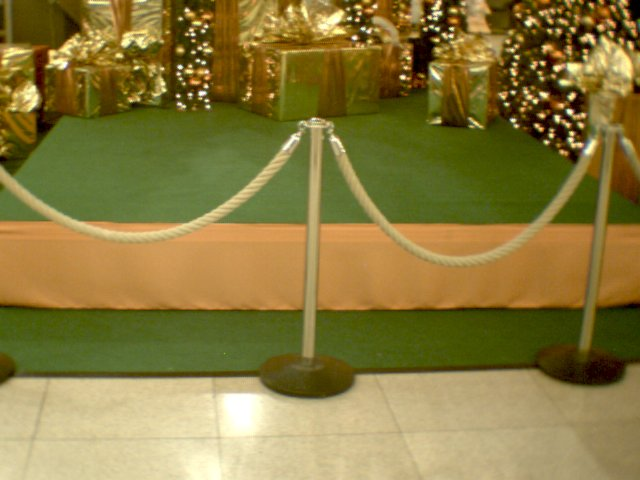 Ropes hanging in the shape of the cosh function, also known as catenary